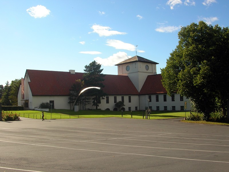 Exhibition in Viking Ship Museum in Oslo